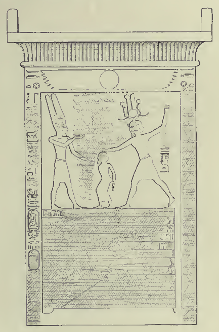 Nahr al-Kalb Southern Egyptian inscription drawing 1922